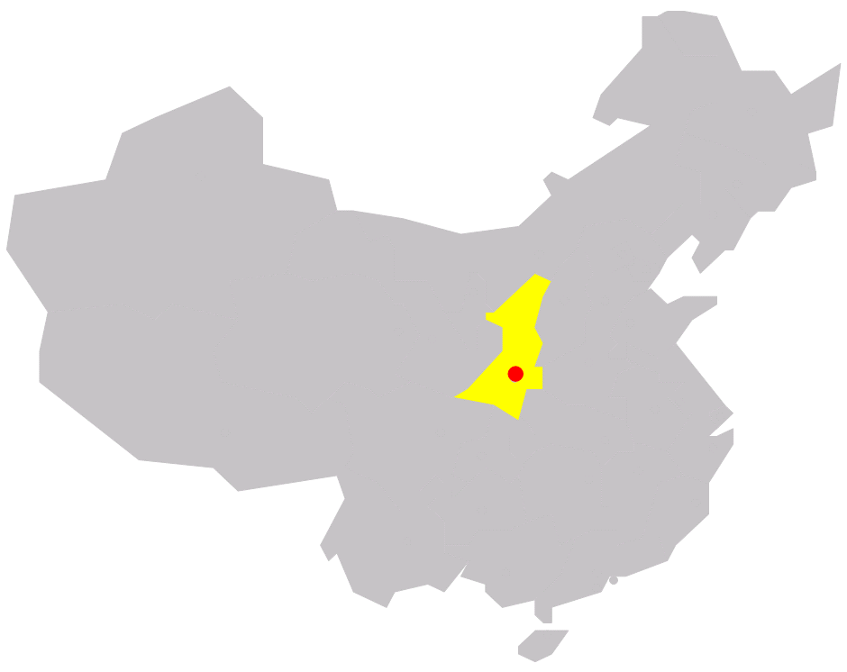 Description: position of Xian in China Source: own work Date: December 2005 Author: --Immanuel Giel 13:41, 16 December 2005 (UTC) Other versions: none Xian Xian Xian